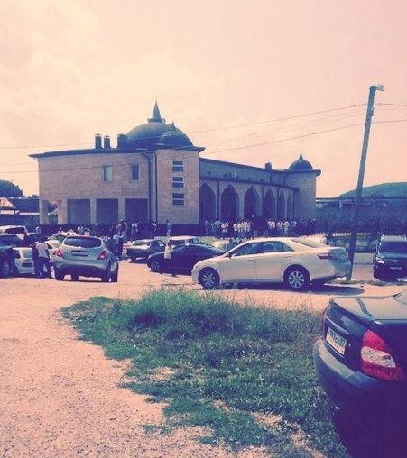 Mosque in the village Kenje